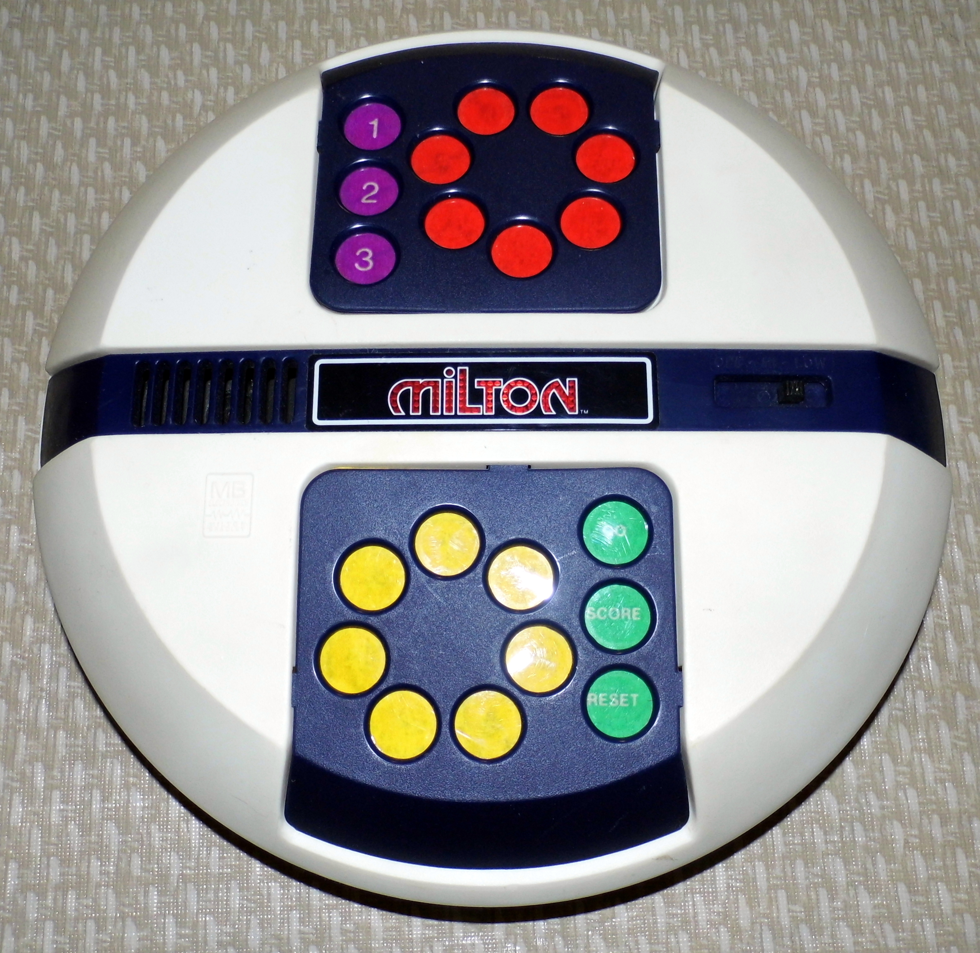 Milton Electronic Talking Game by Milton Bradley, Made in the USA, Circa 1980 - First Competitive Talking Game A good source of information on vintage handheld electronic games is the Electronic Handheld Game Museum .